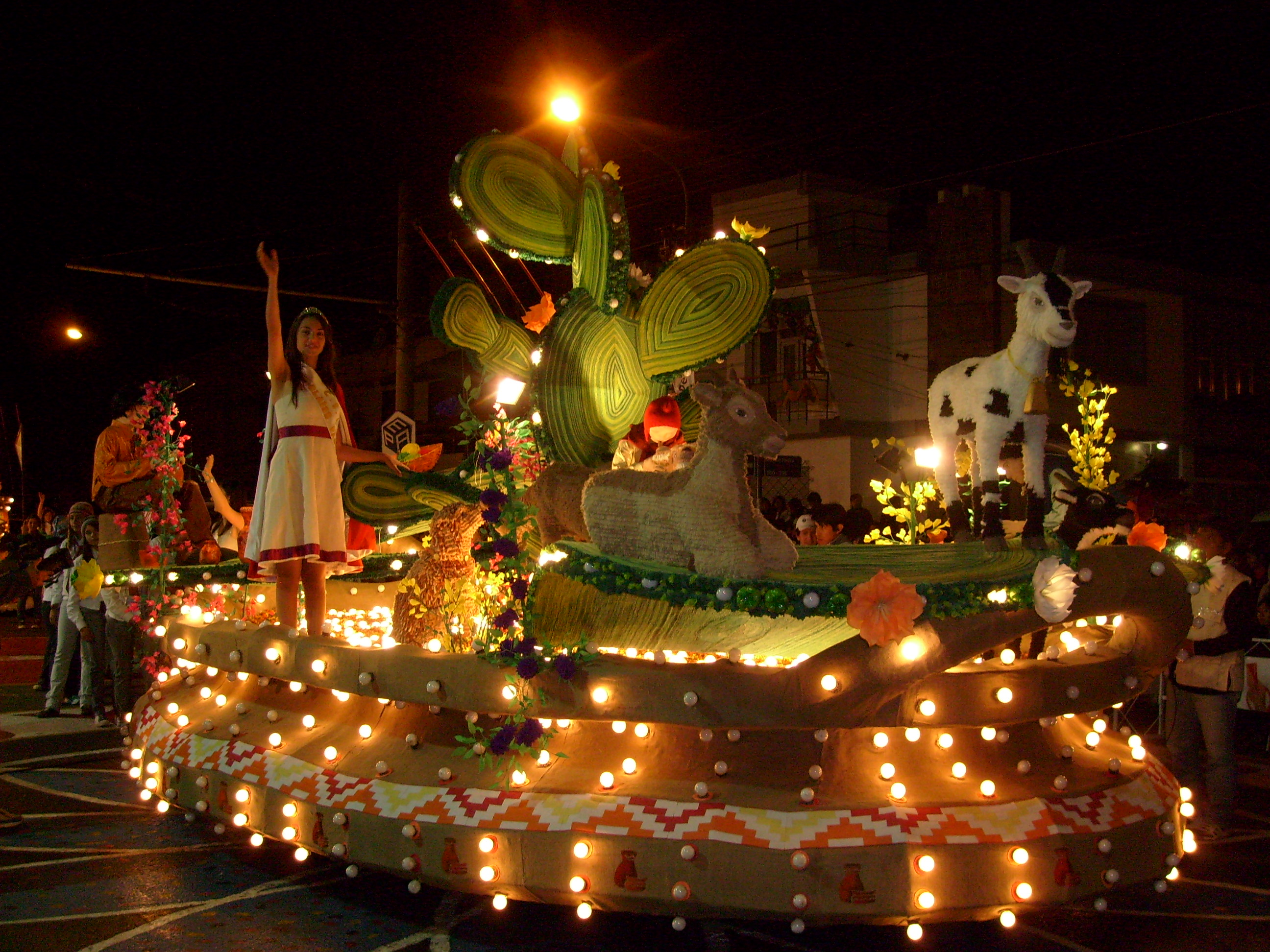 Blaise Pascal High School's carriage on 2008